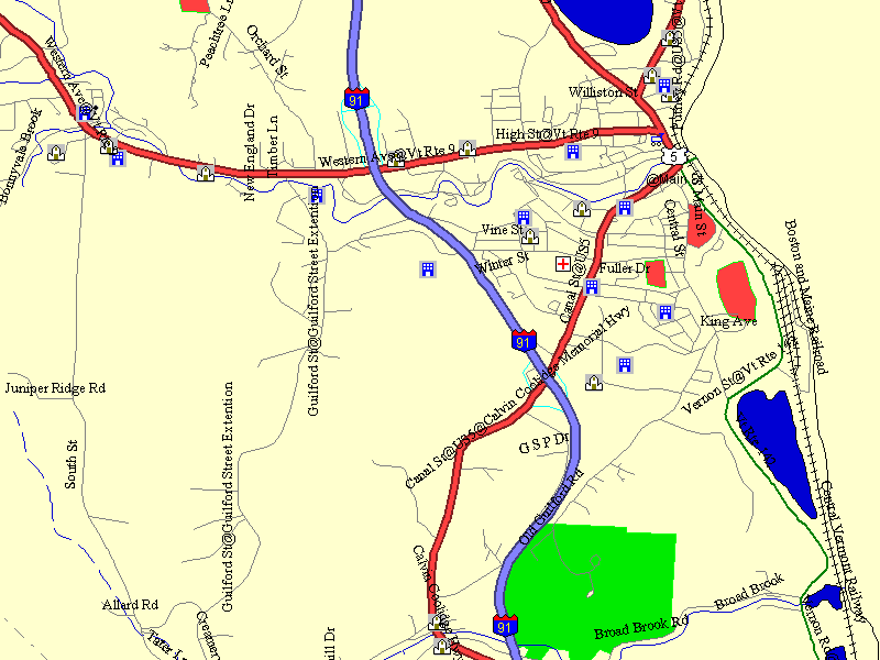 Example of a TIGER/Line map. This map was generated with Global Mapper using 2003 TIGER/Line data from the US Census Bureau.